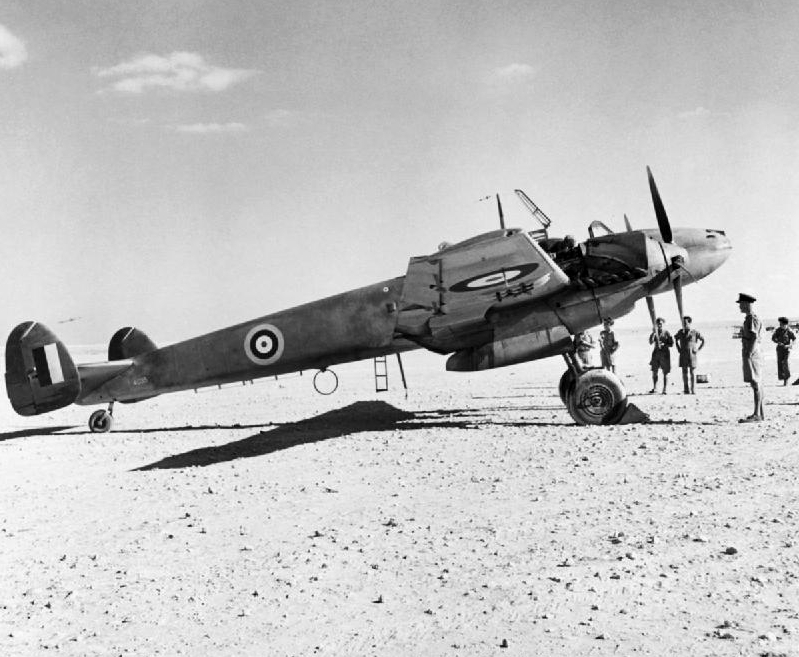 A captured German Messerschmitt Me 110D "The Belle of Berlin" in British markings on a landing ground in North Africa. This aircraft served with II/ZG76 in Iraq and was captured after crash-landing near Mosul in May 1941. It was used as a communications aircraft and later as a unit 'hack' by No. 267 Squadron RAF.